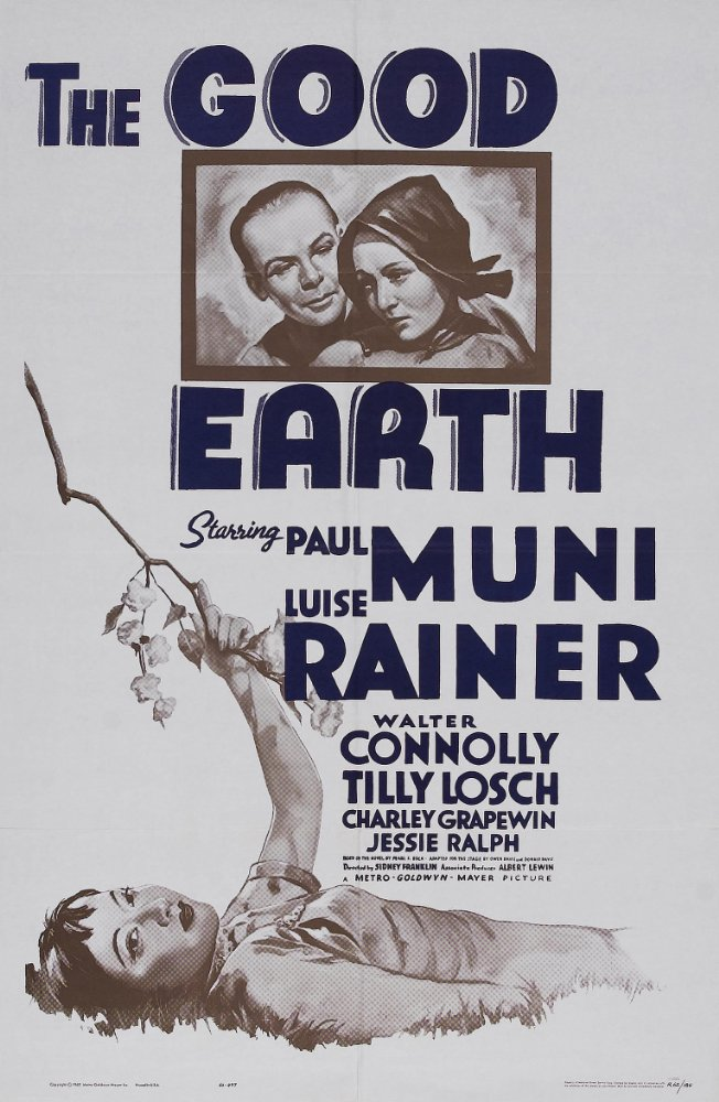 Poster of the film The Good Earth, released in 1937